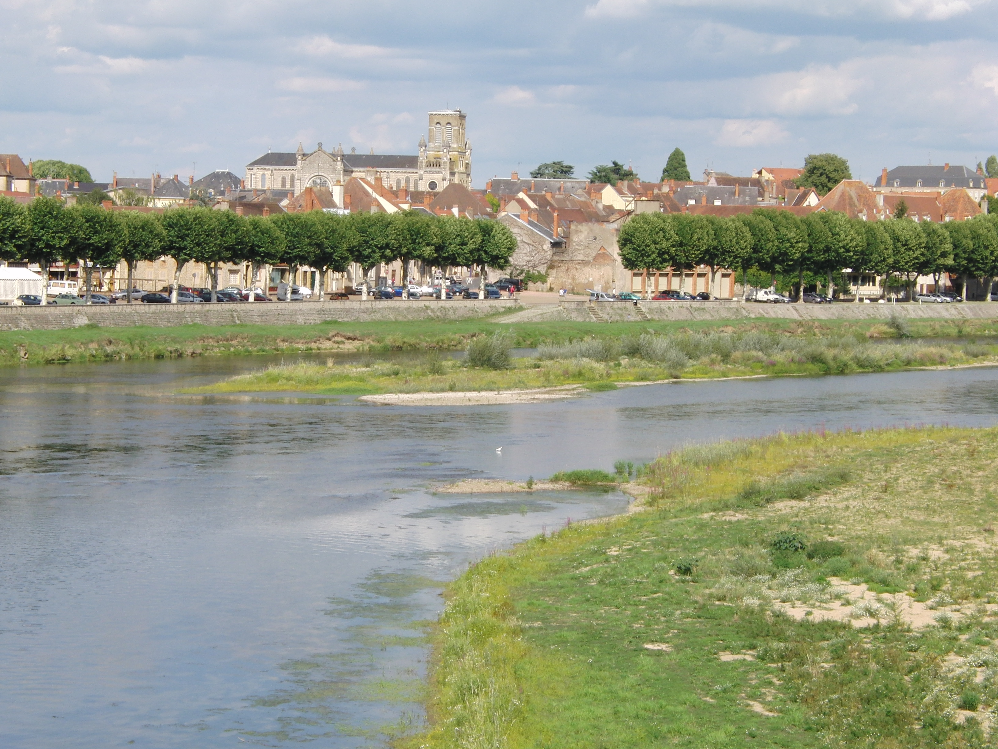 Seesight of Digoin from Loire, Saône-et-Loire, France